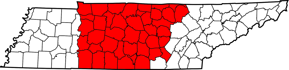 Map showing the counties of Middle Tennessee, United States.